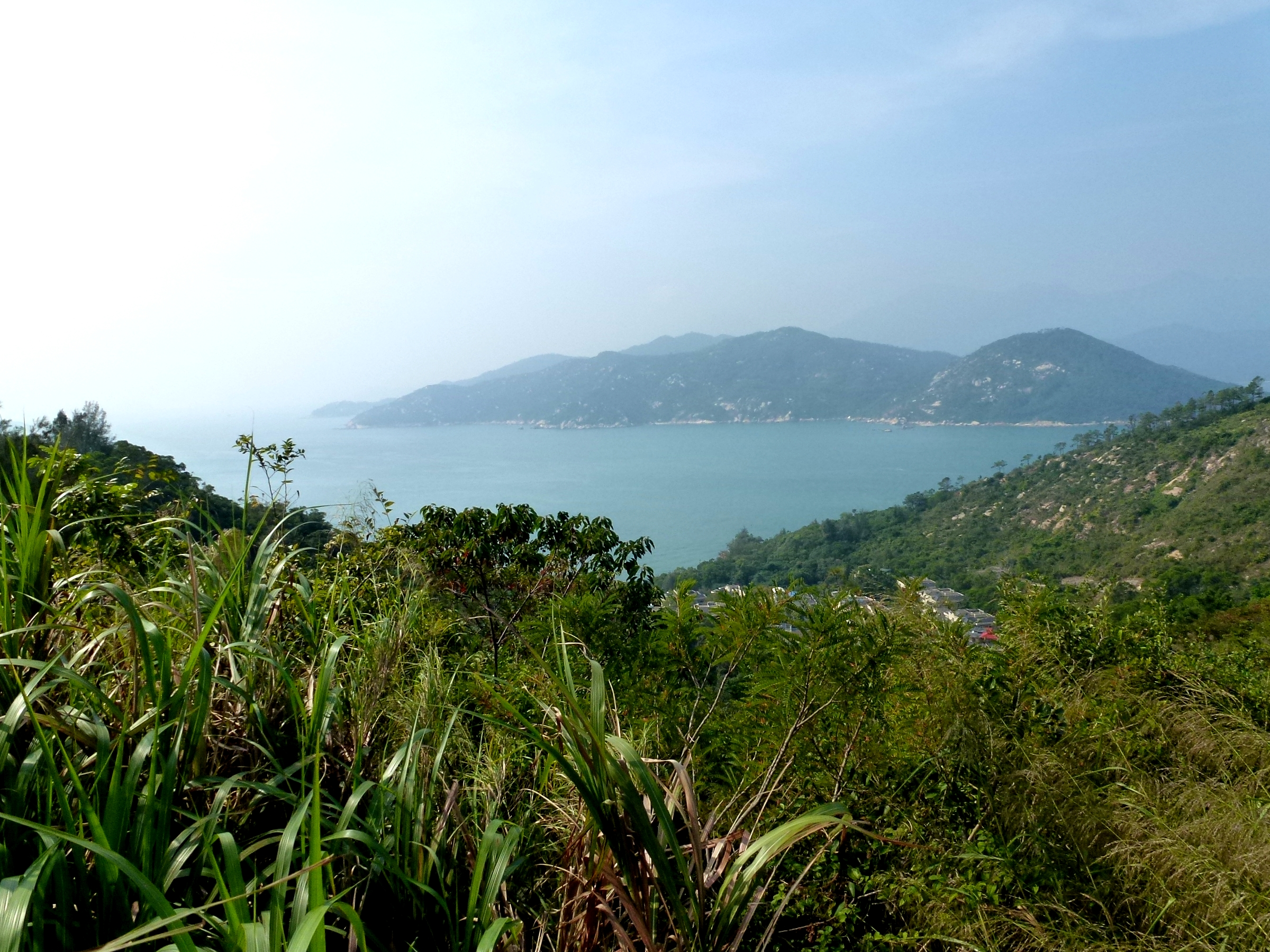 Lantau Island from North Cheung Chau Island Hong Kong